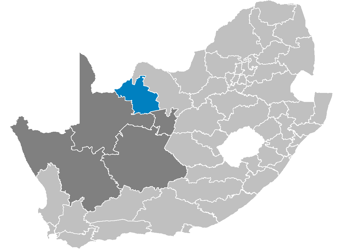 Map showing the Kgalagadi District Municipality higlighted within Northern Cape.